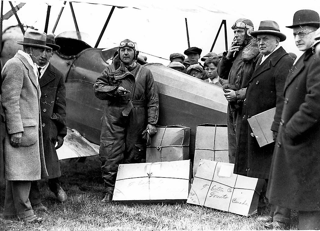 First air express delivery, at Leaside Aerodrome. First package deliveries were destined for T. Eaton Co. in Toronto.